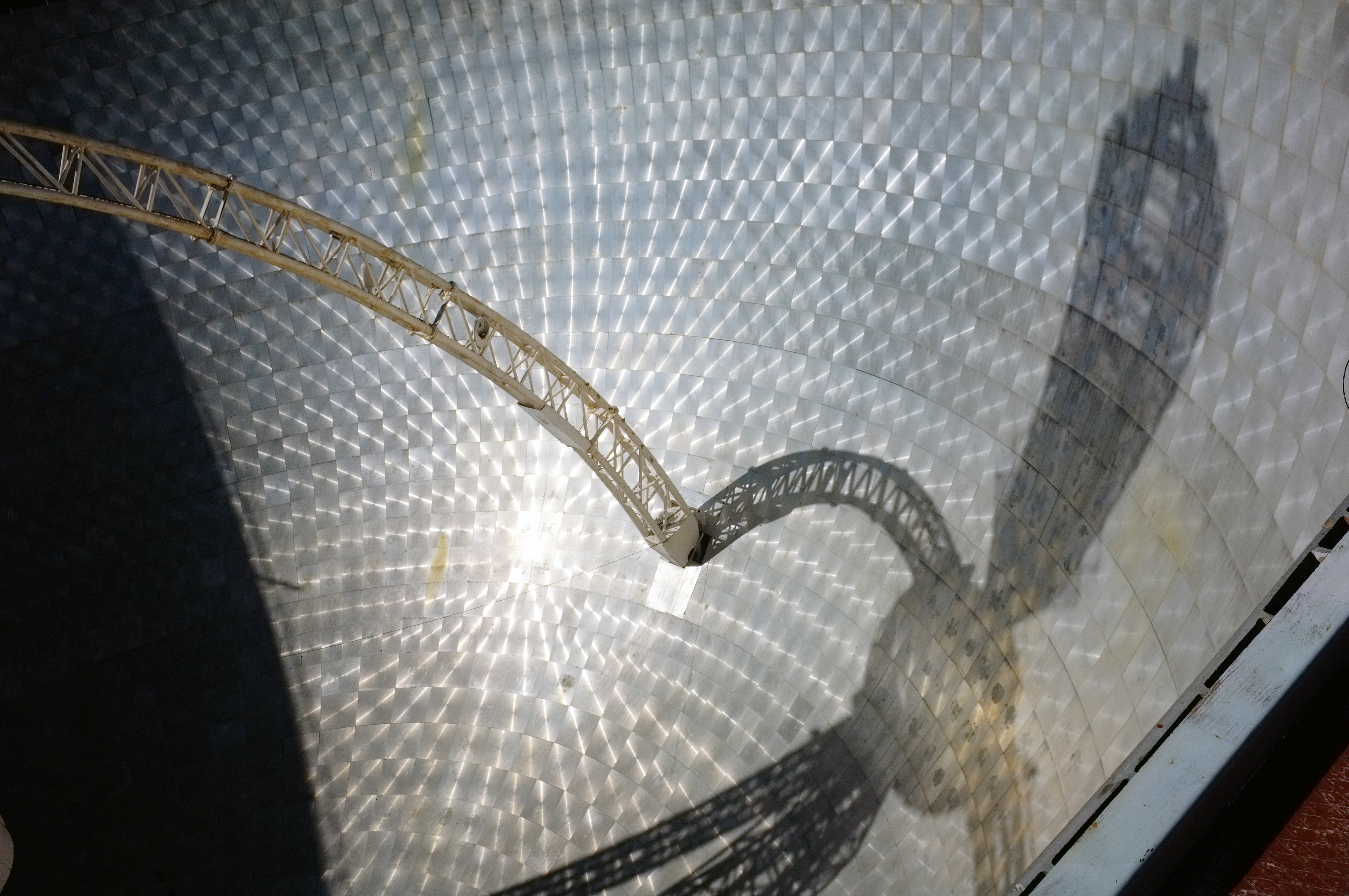 Main antenna of Orgov Radio-Optical telescope